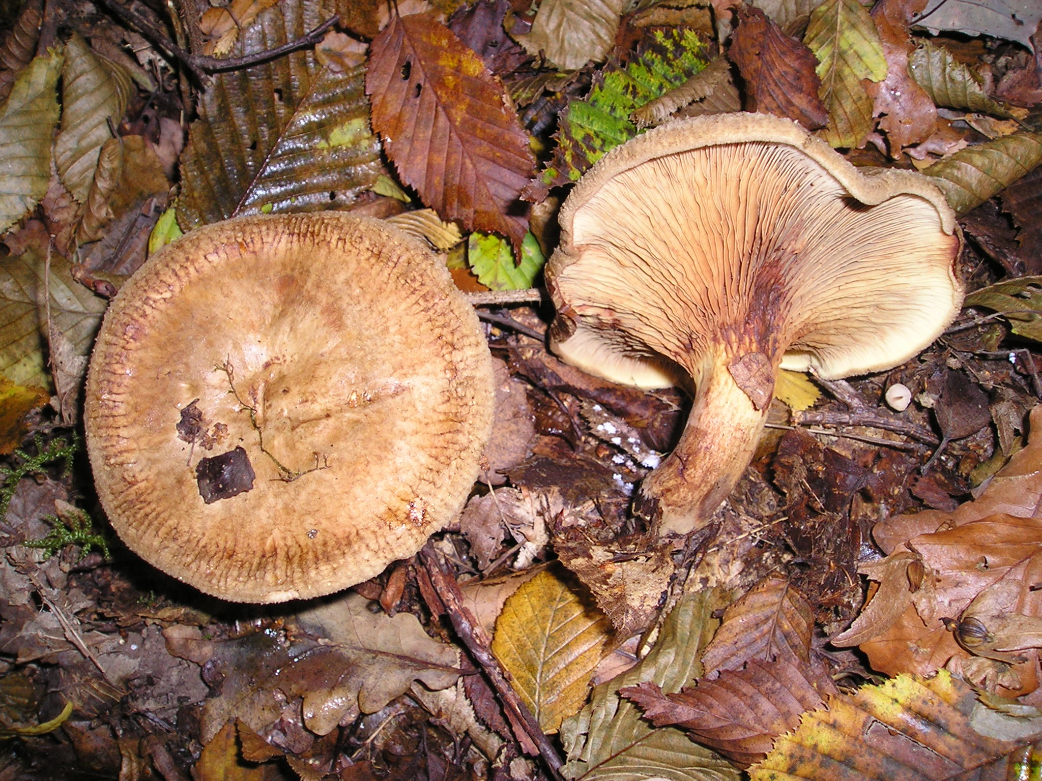 Paxillus involutus in a French wood near Rambouillet.